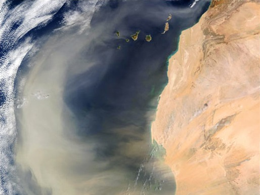 An intense African dust storm sent a massive dust plume northwestward over the Atlantic Ocean on March 2, 2003. In this true-color scene, acquired by the Moderate Resolution Imaging Spectroradiometer (MODIS) aboard NASA's Terra satellite, the thick dust plume (light brown) can be seen blowing westward and then routed northward by strong southerly winds. The plume extends more than 1,000 miles (1,600 km), covering a vast swath of ocean extending from the Cape Verde Islands (lower lef), off the coast of Senegal, to the Canary Islands (top center) off the coast of Morocco. The high-resolution image provided above is 500 meters per pixel. The MODIS Rapid Response System provides this image at MODIS’ maximum spatial resolution of 250 meters. Image courtesy Jacques Descloitres, MODIS Rapid Response Team, NASA GSFC.